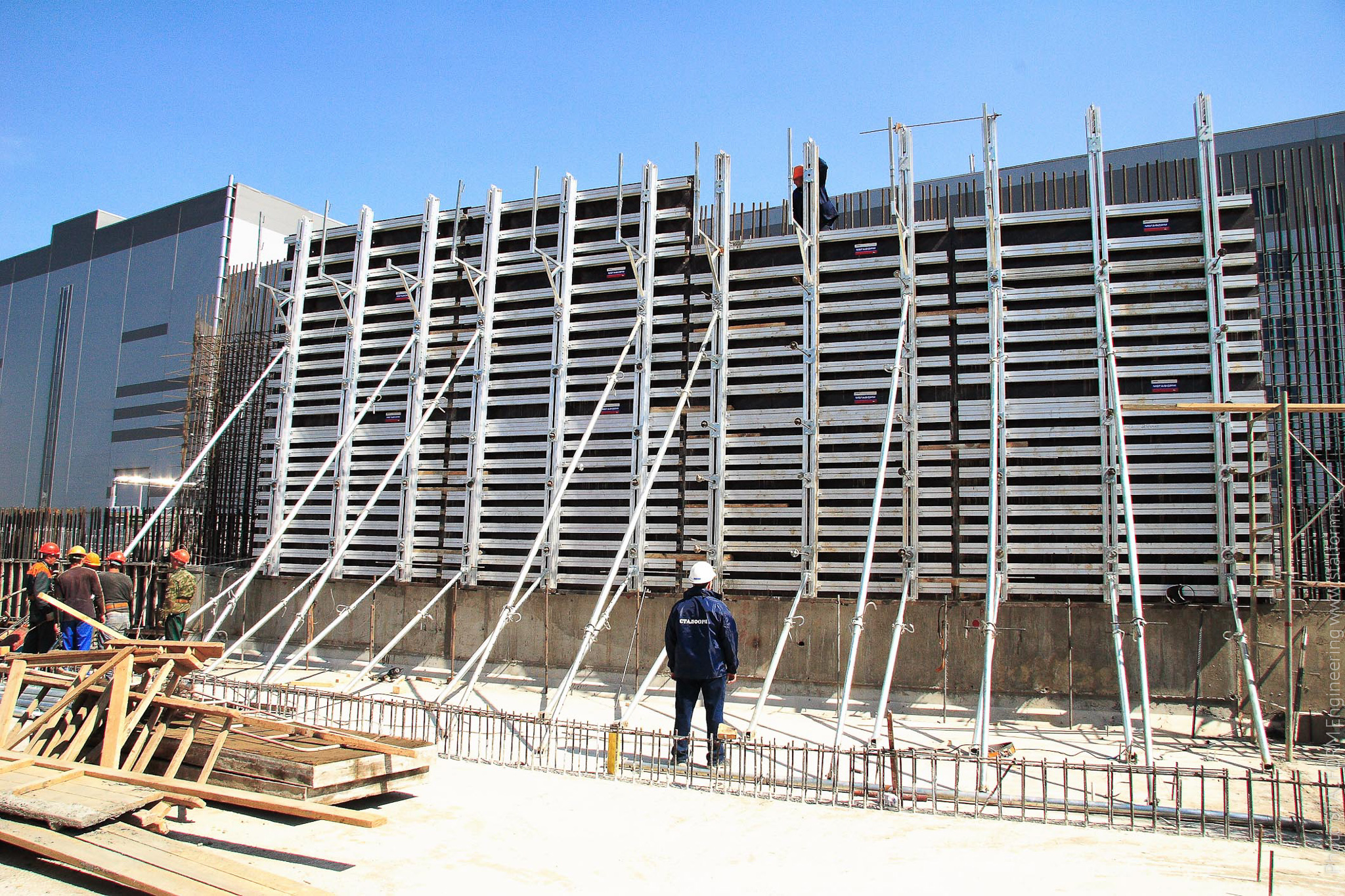 Assembling large-frame of aluminum beams formwork MEGAFORM for concreting walls of the underground station of the Moscow Metro